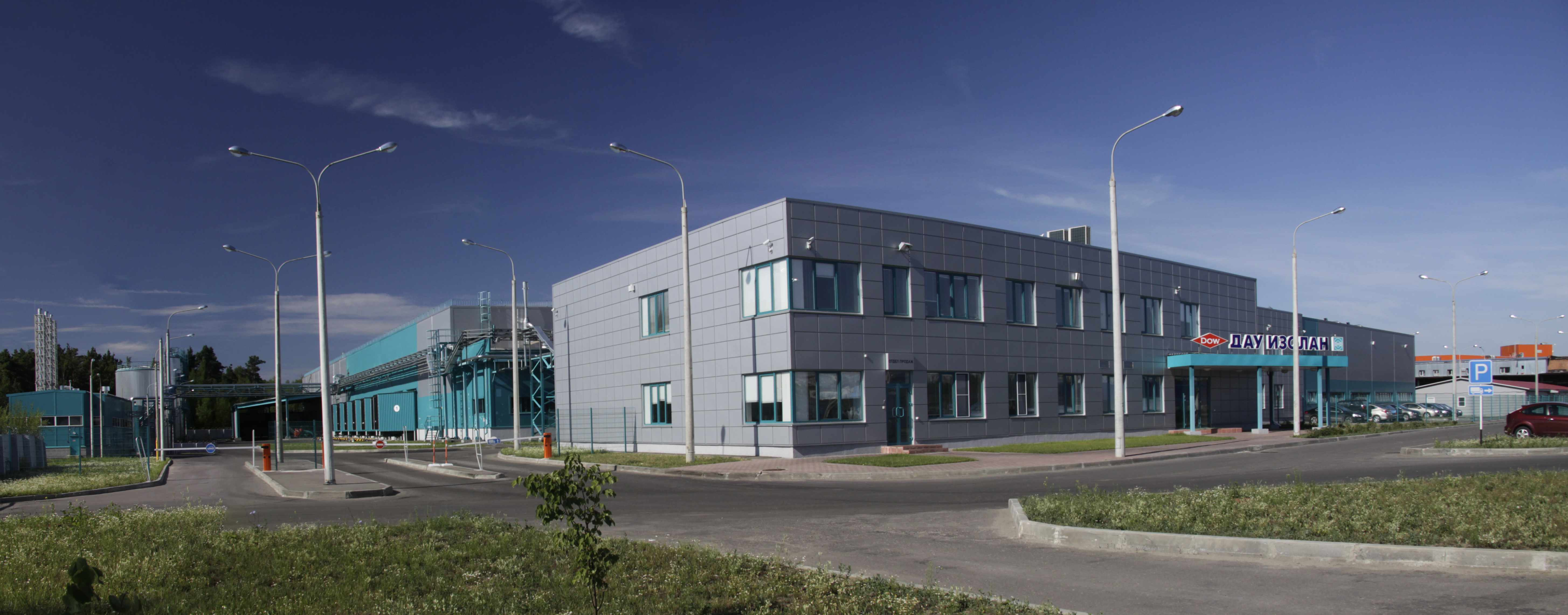 Dow Isolan. Dow Chemical and Isolan joint venture in Vladimir, Russia.